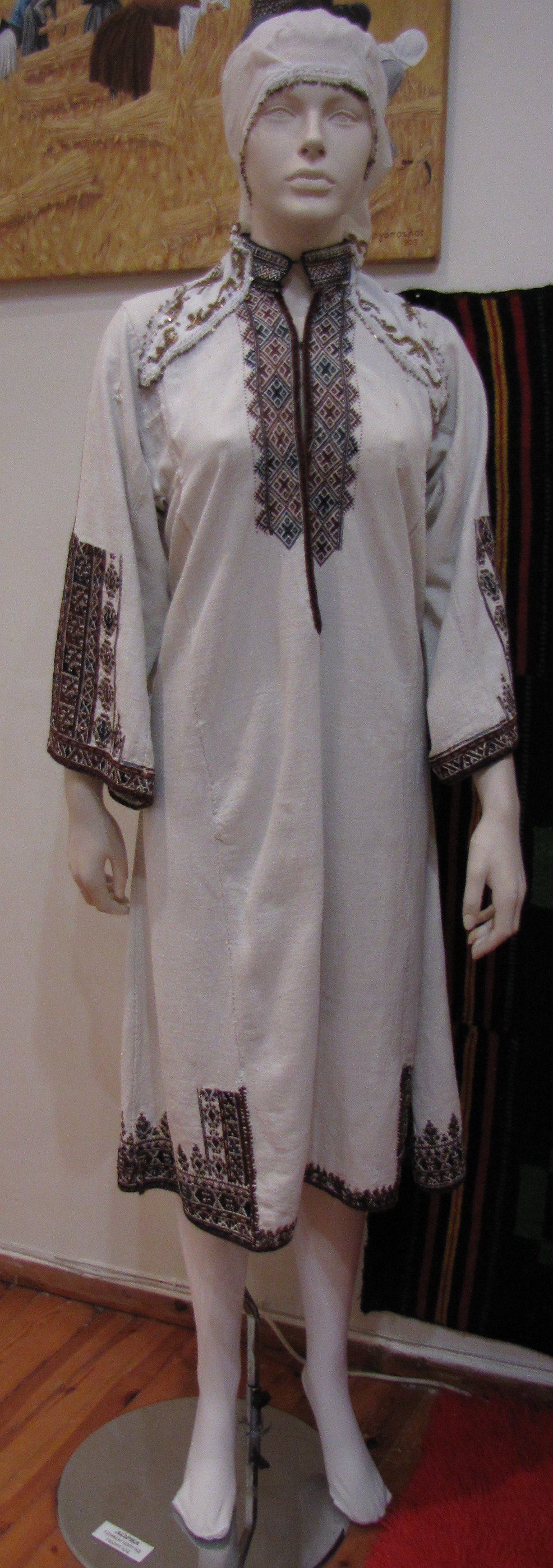 Part of a traditional costume